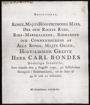 Traditional Swedish letter proclaiming the death of a person, in this case count Carl Bonde